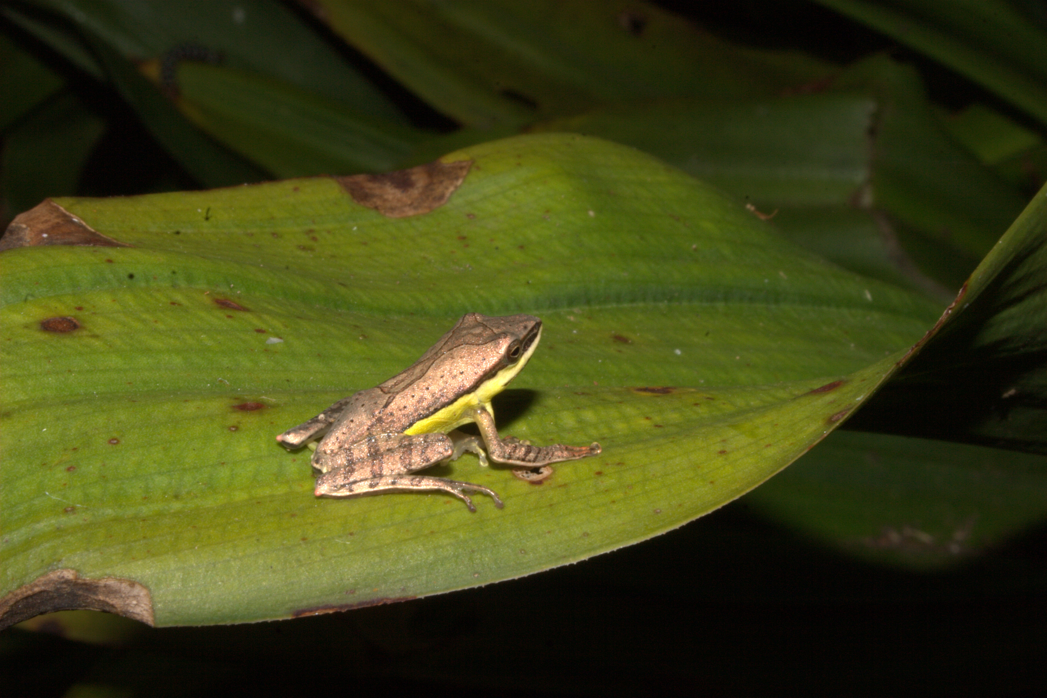 Taruga eques at Haggala